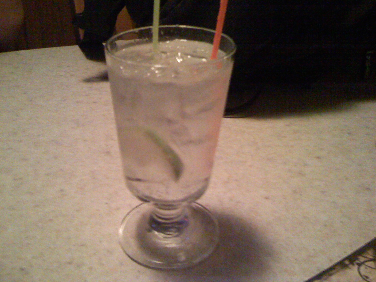 A picture of a Vodka Tonic. Taken by myself at the Canal Bar and Grill in Frederick, MD on July 13, en:2007.